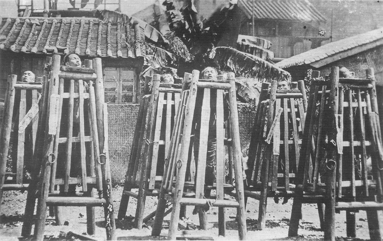 Execution of Boxers after rebellion, to appease foreign powers.